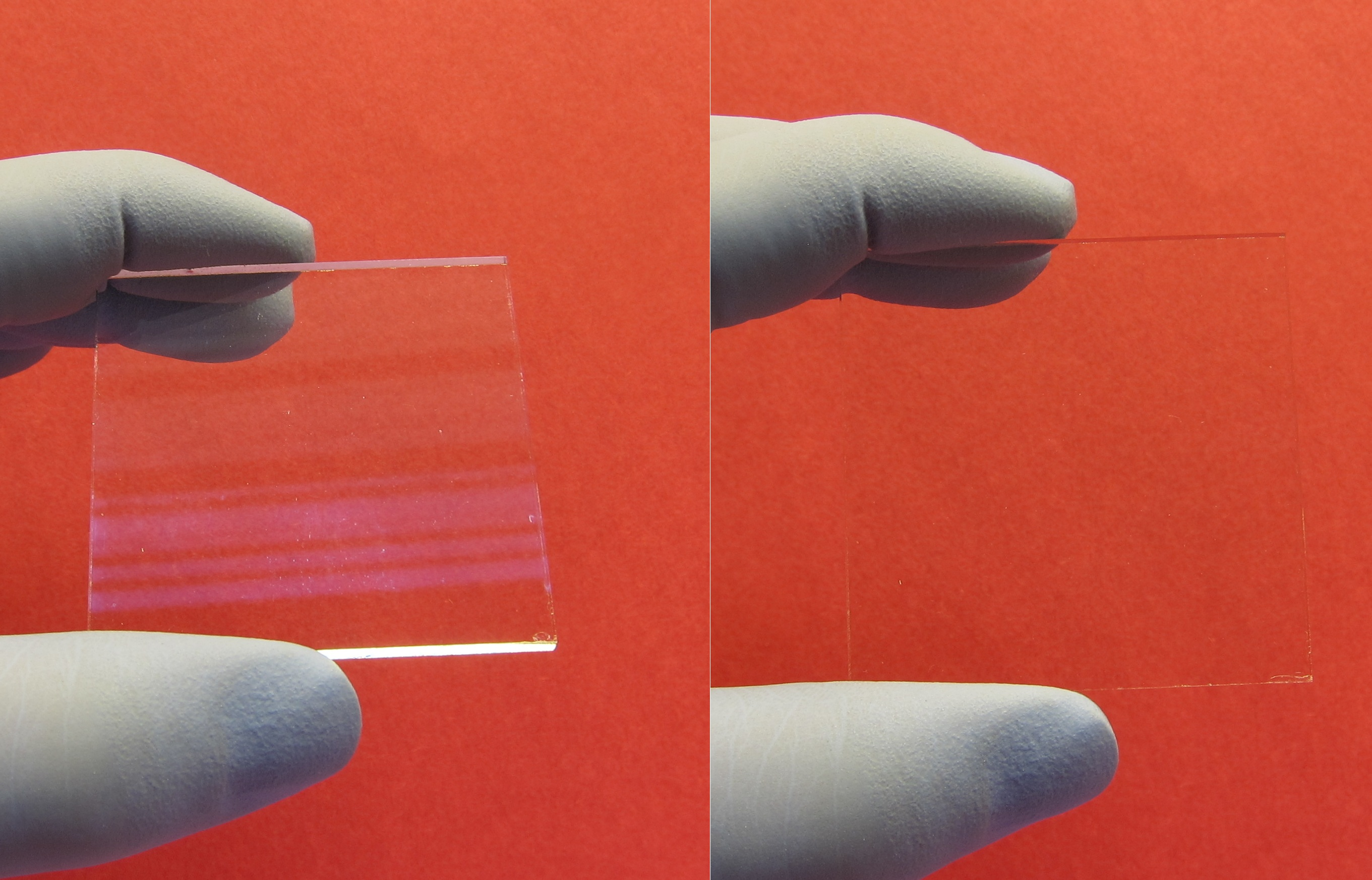 This photo shows an antirelection coated window. The window measures 2 inches (5.1 cm) square by 1/8 inch (3mm) thick. Made of borosilicate float-glass, the surface accuracy is 4λ per inch. The coating is a multilayer anti-reflection coat designed to give less than 0.5% reflection across the visual spectrum at a 0° angle of incidence. Transmittance is 96--99% between 400 and 700nm. The photo on the left shows the window when viewed at a 45° angle, reflecting the above fluorescent lighting in a rather purplish hue, which is common for antireflection coatings. This is due to the thickness of the coating upon the incident light, which causes it to shift toward the red and IR portion of the spectrum and allow reflections at the opposite end. The photo on the right shows the window when viewed at a 0° angle of incidence, for which the AR coating was designed, giving almost no reflection. (Some reflection of the camera and the photographer's face should normally be present.)